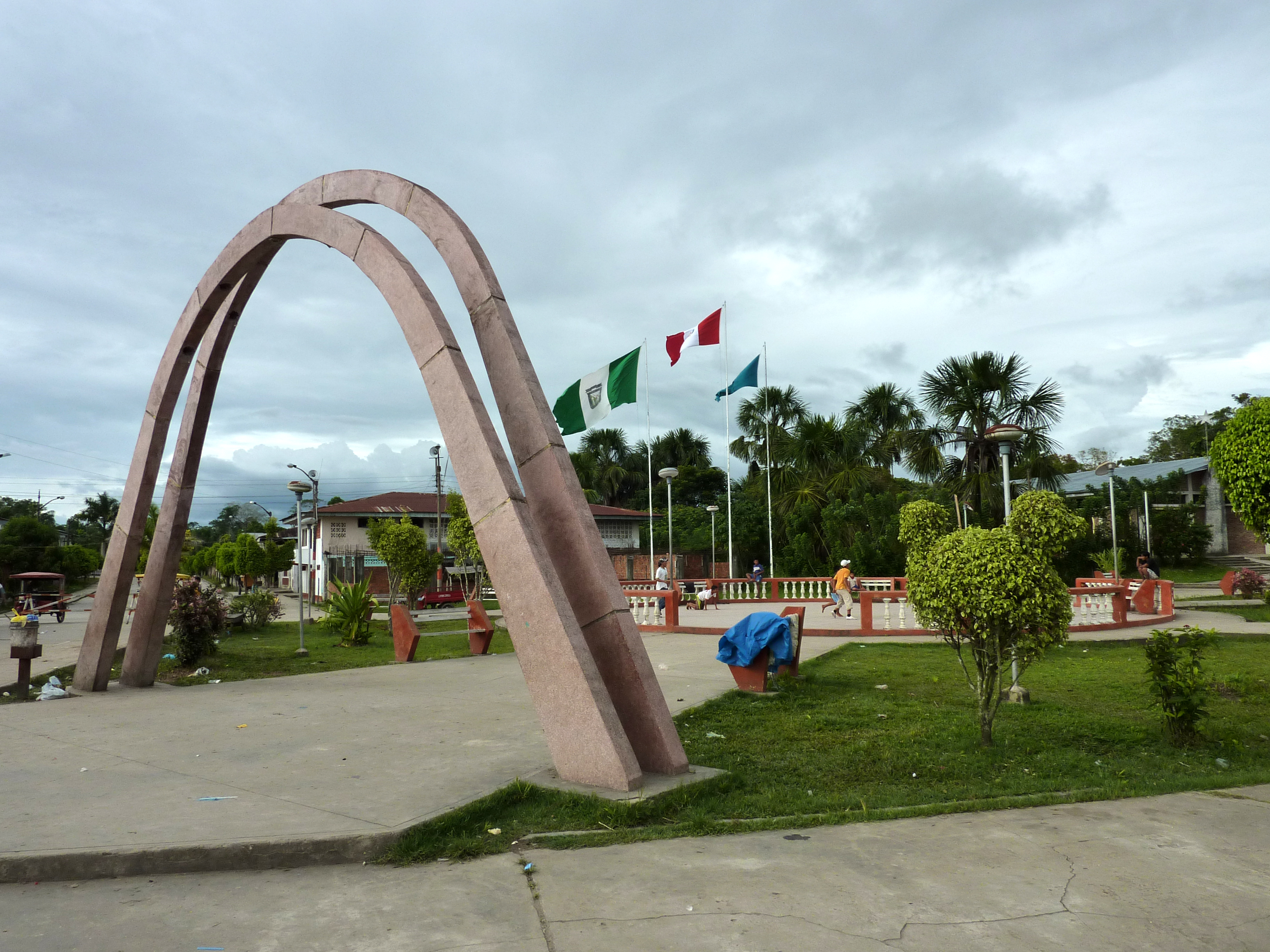 Plaza in Indiana, Peru in the heart of the Amazon jungle.